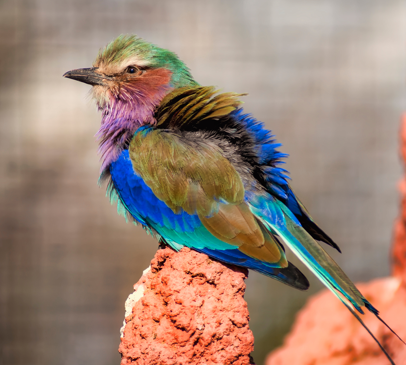 Photographed at Chester Zoo